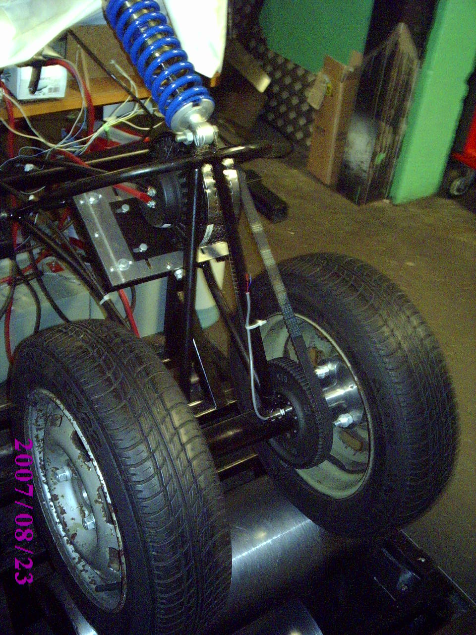 Fizzy bench